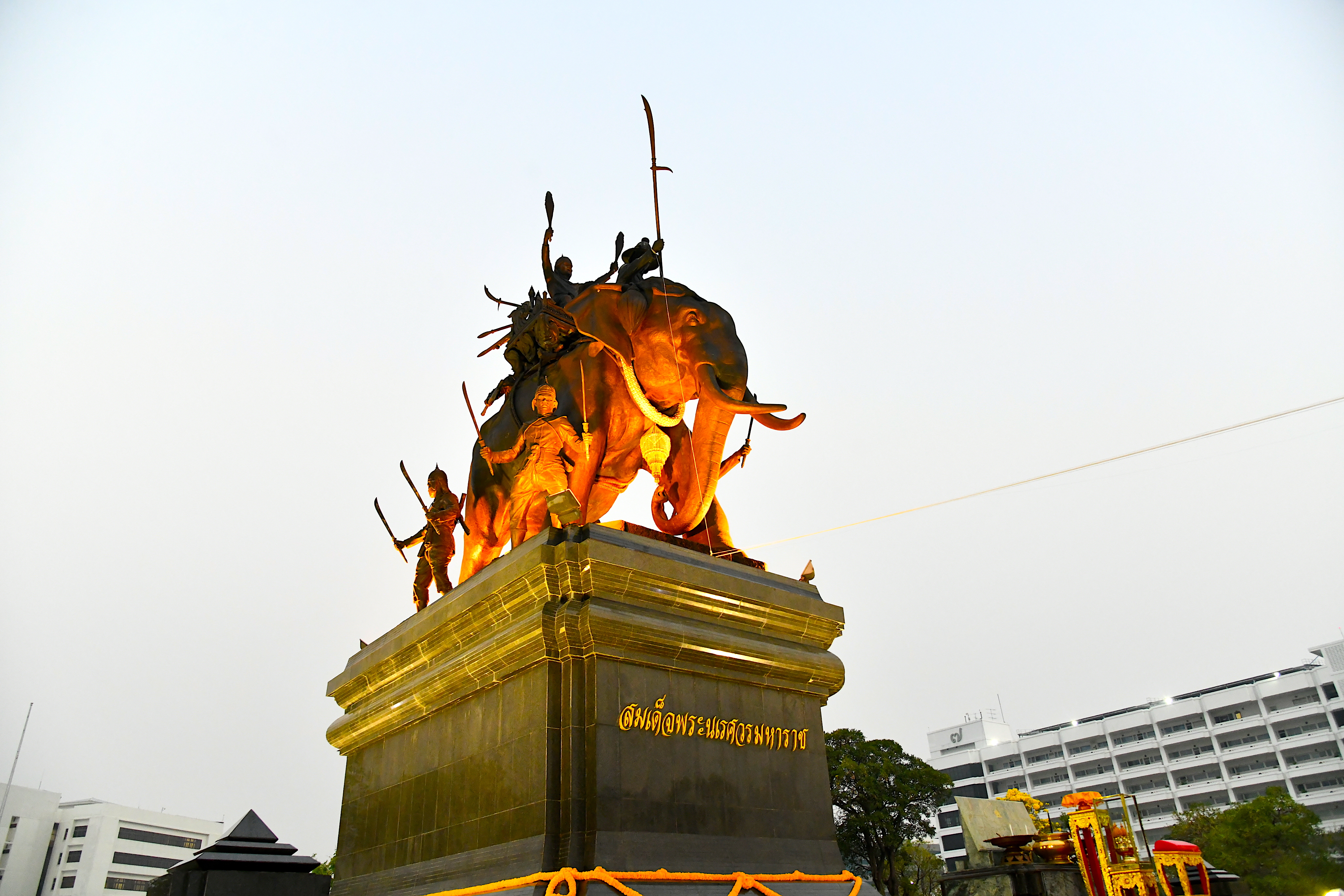 Royal Thai Armed Forces Day 2020